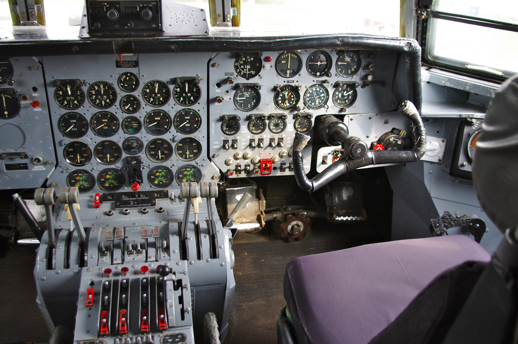 Midland Air Museum, Coventry